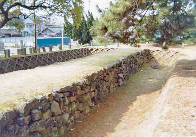 Defensive wall, Fukuoka, Fukuoka prefecture, Japan